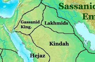 Lakhmids